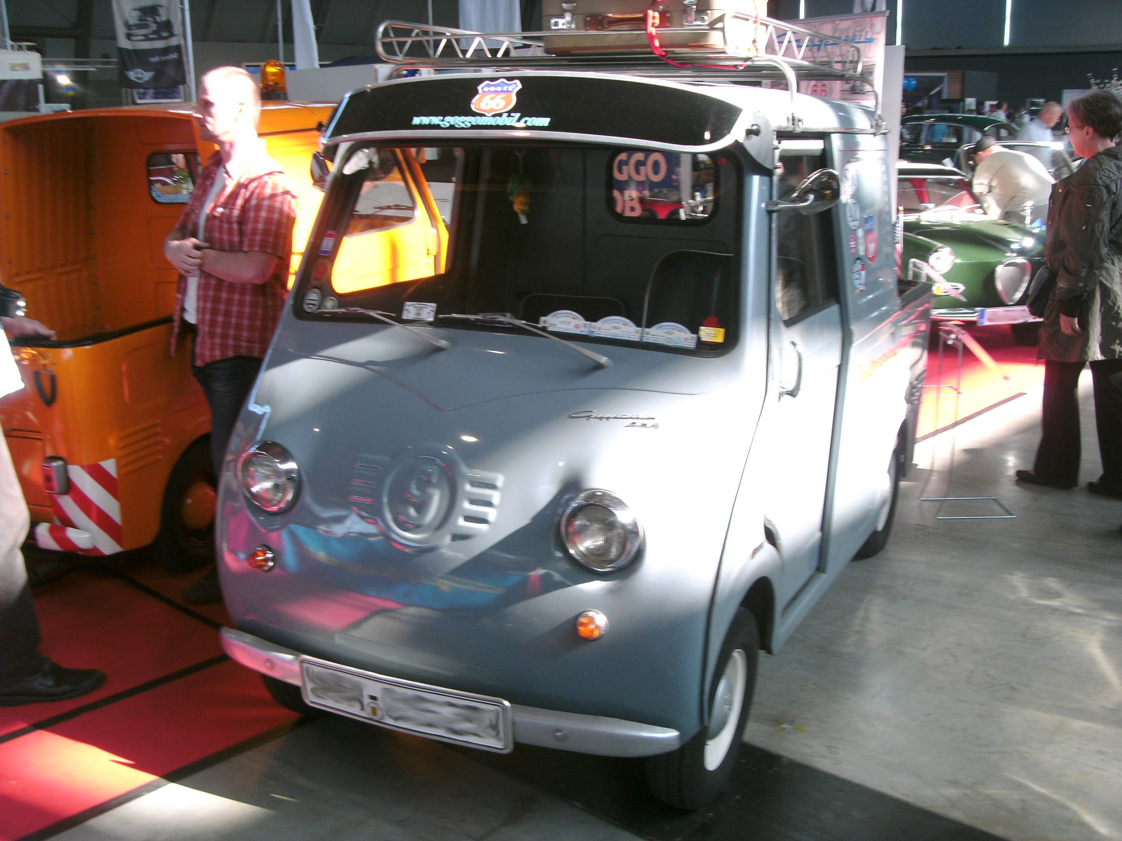 Goggomobil_TL250_Pickup at Retro Classics 2012